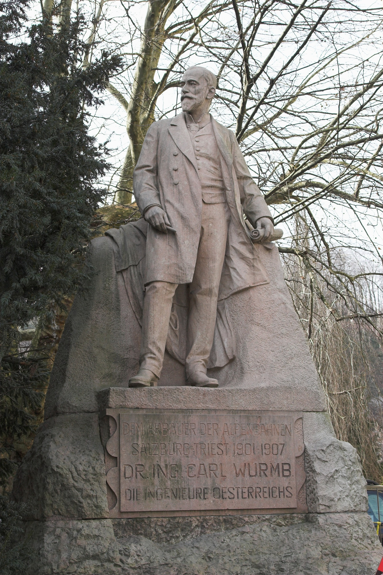 Statue of Austrian railway construction engineer Karl (or Carl) Wurmb in the city of Salzburg.Sculptor: Johannes RathauskyLocation: Salzburg, Schwarzstraße, opposite the Mozarteum.